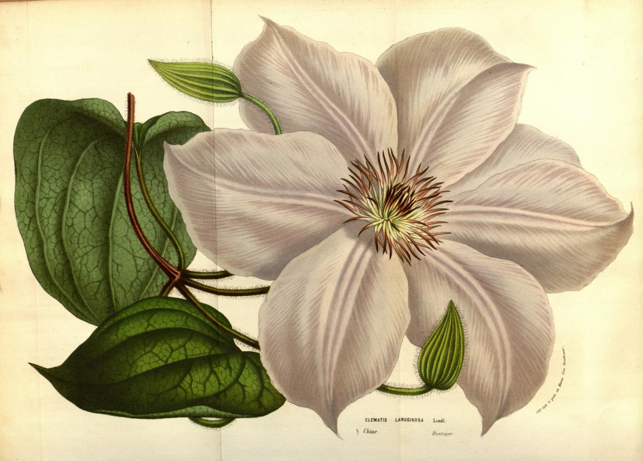 Clematis lanuginosa, as Clematis lanuginosa var. pallida